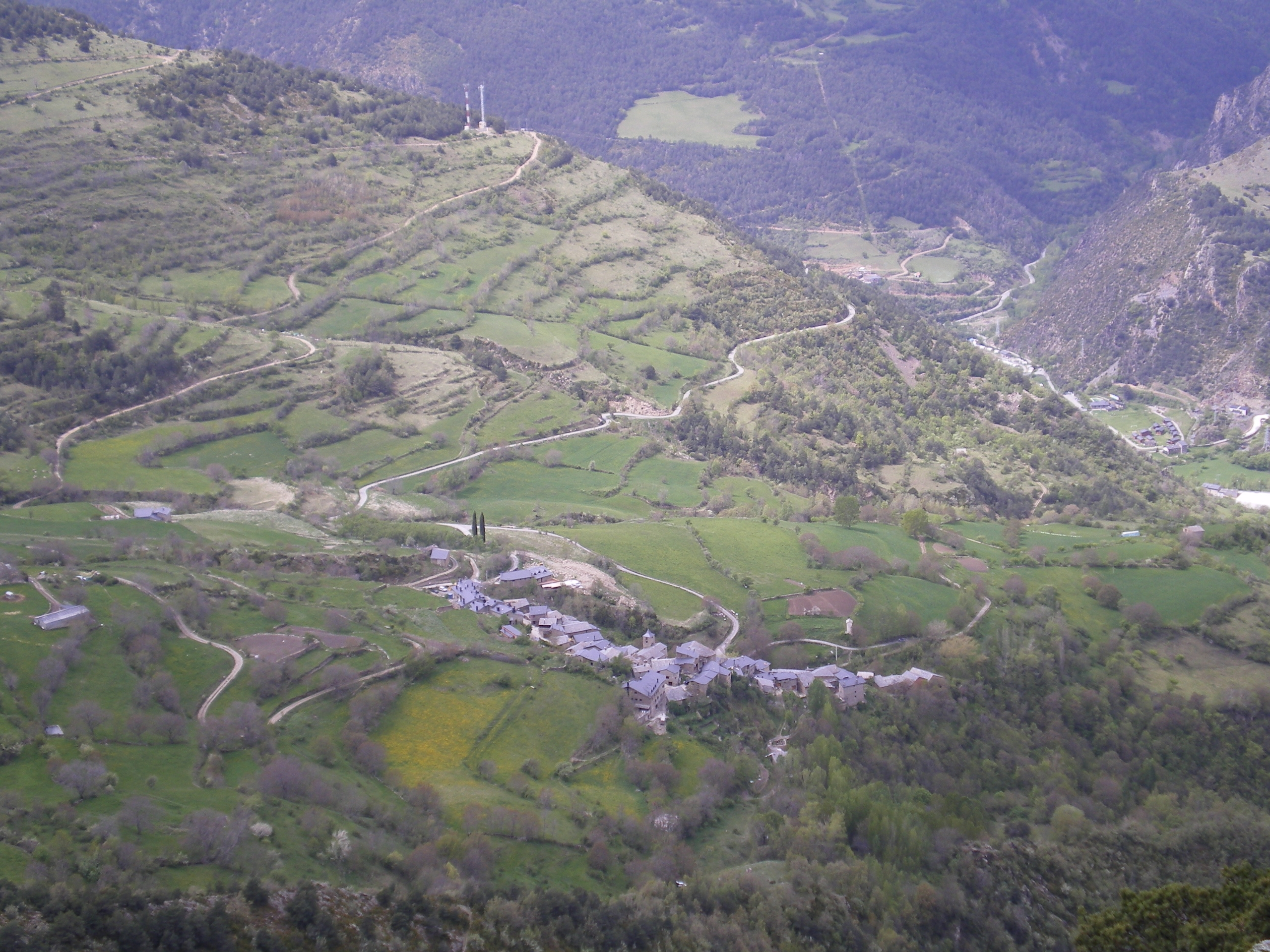 Arcavell's view in Lleida,Catalonia,Spain from Runer river viewpoint in Andorra